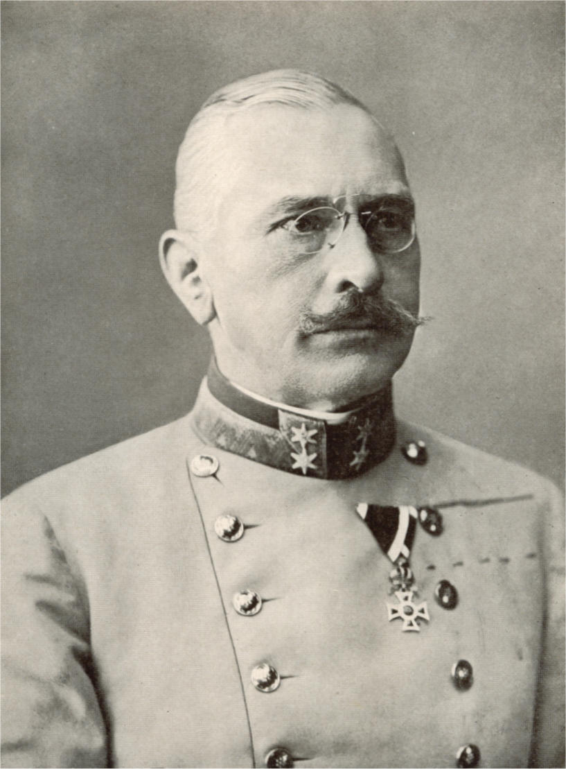 Count Viktor Dankl von Krasnikwas an austro-hungarian army commander in World War One